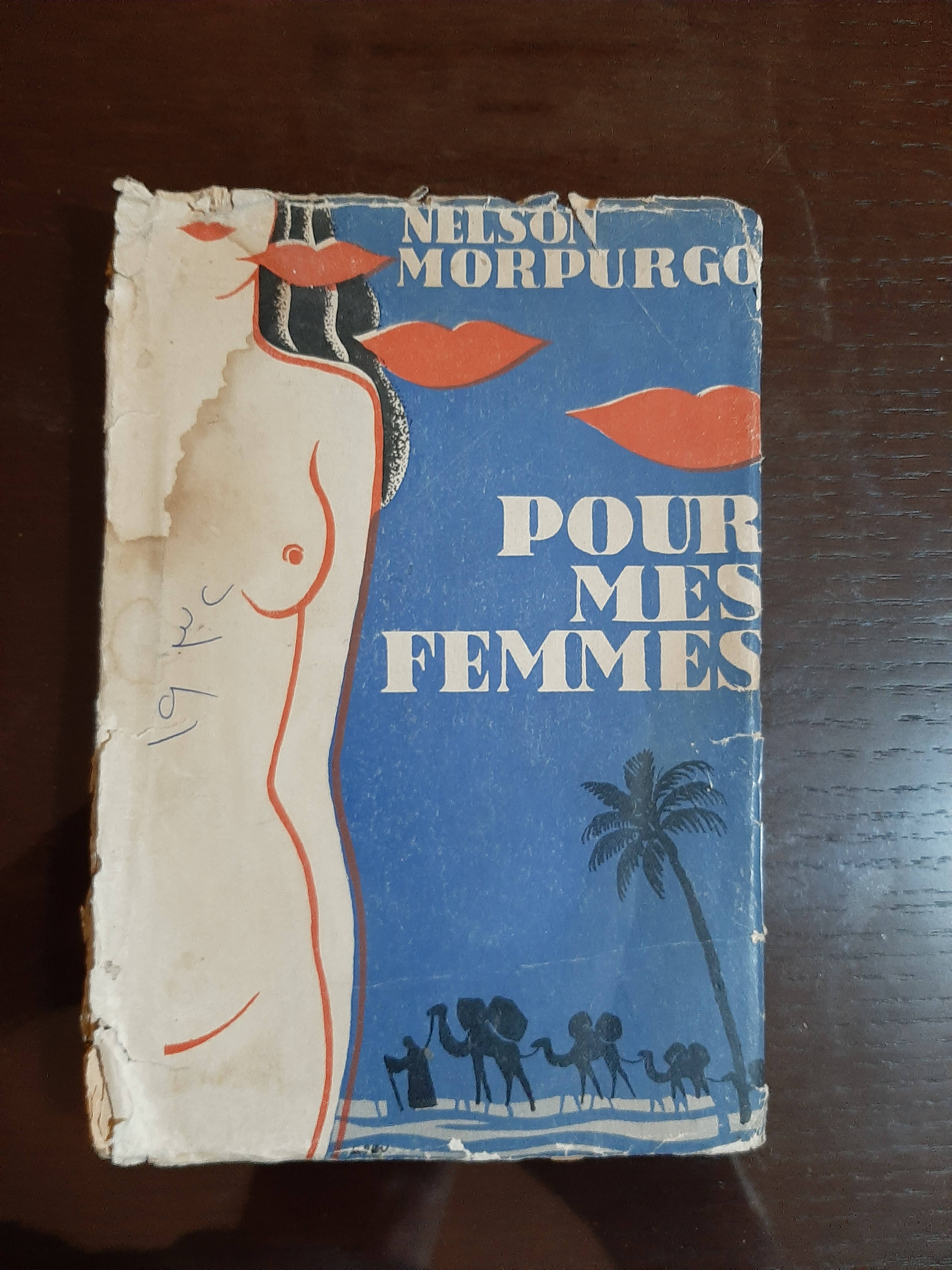 The front cover of a Futurist collection of poetry by Nelson Morpurgo, designed by Baby Zanobetti.